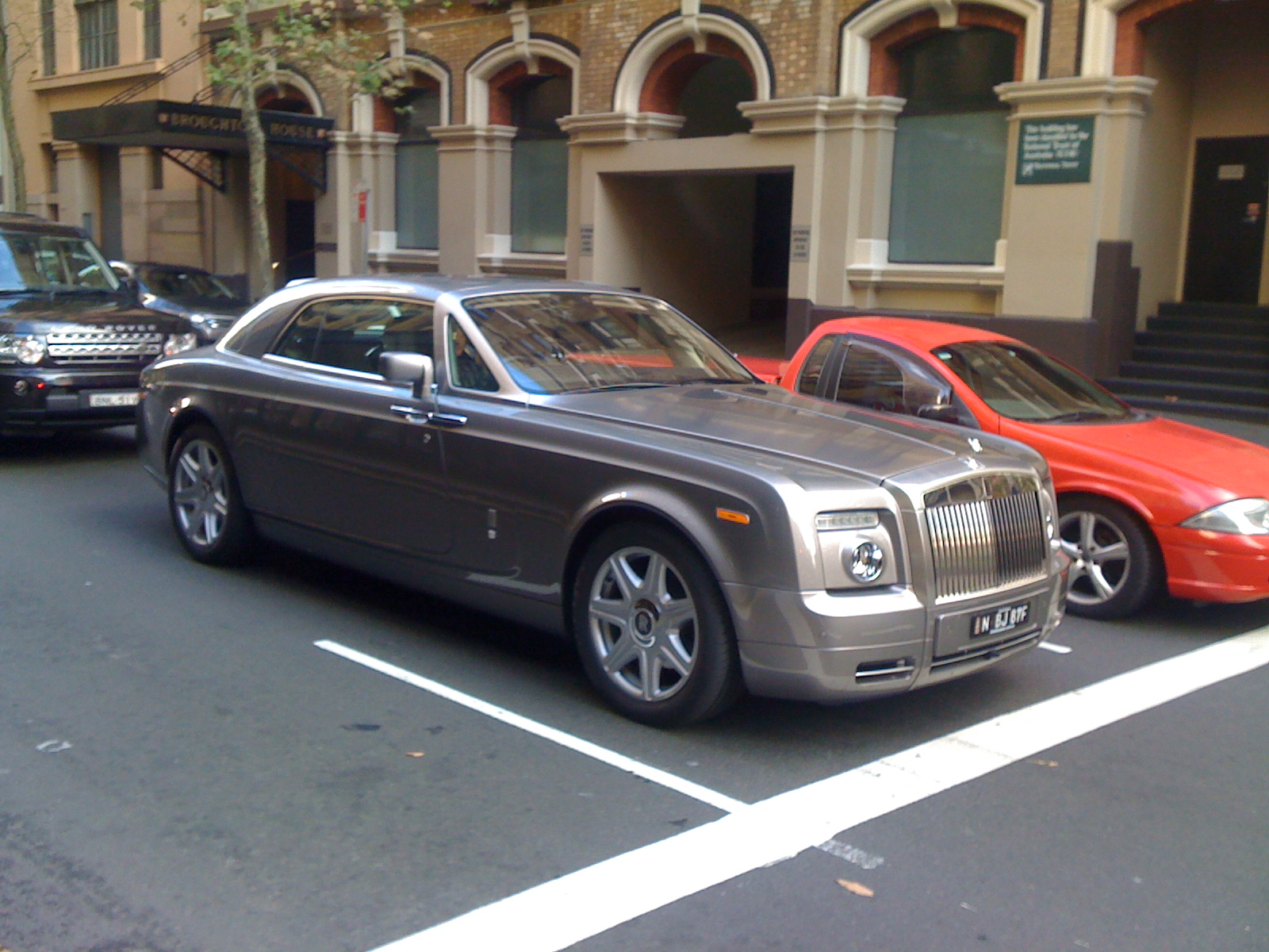 A Rolls-Royce Phantom Coupe in Sydney, Australia.